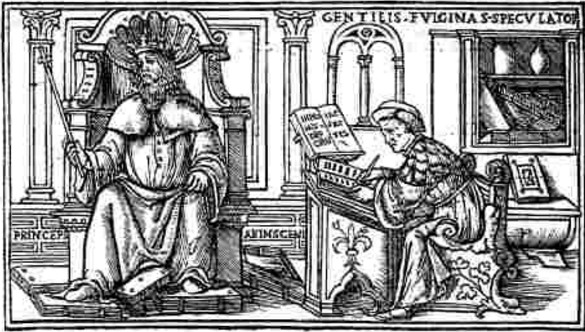 edition of the Canon and its commentary by Gentile da Foligno, Venice 1520